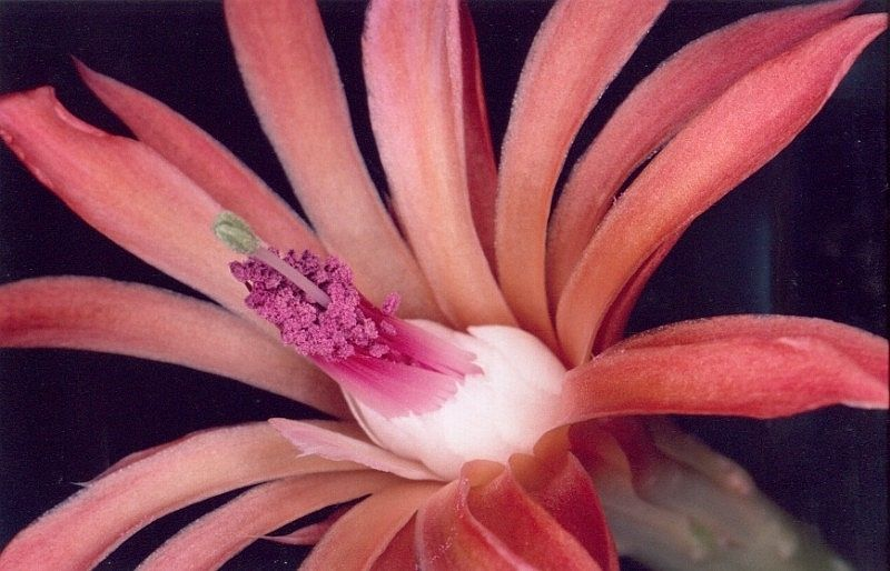 Cleistocactus winteri (synonym: cleistocactus aureispinus